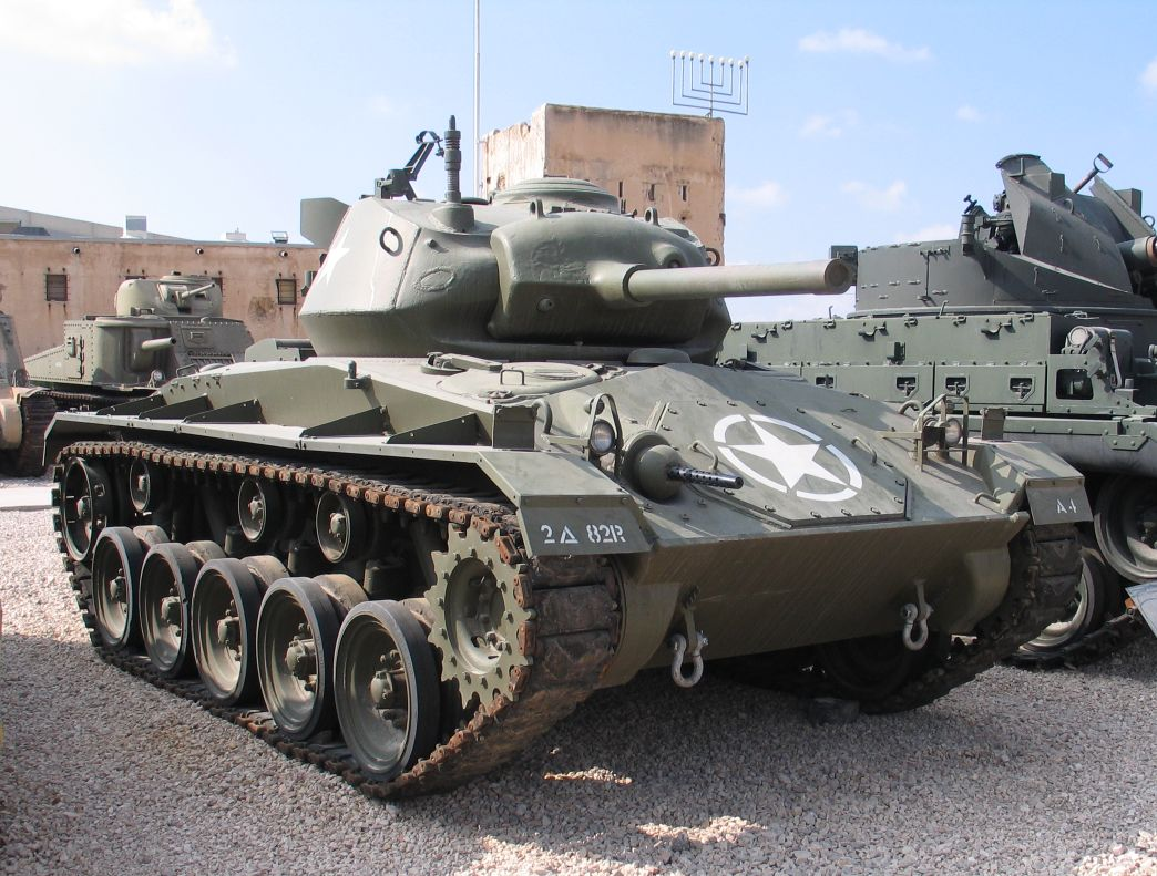 Description: M24 Chaffee light tank in Yad la-Shiryon Museum, Israel. 2005. Source: Photo by me, User:Bukvoed.